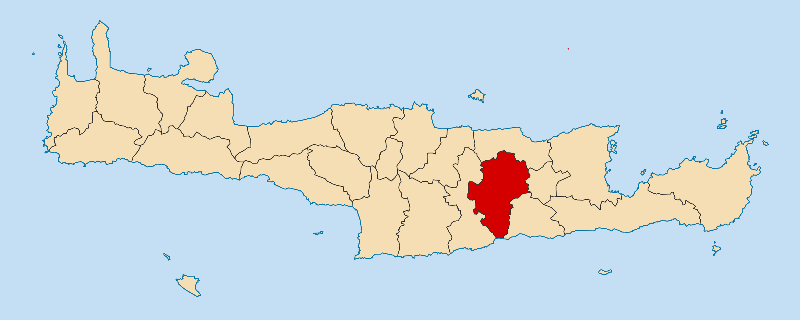 Locator map for Minoa Pediada municipality in Greek region Crete (2011)